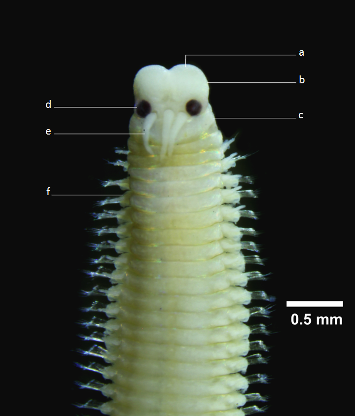 Lysidice oele Horst, 1905. a=palp; b=prostomium; c=peristomium; d=eye; e=occipital antenna; f=parapodium with chaetae.